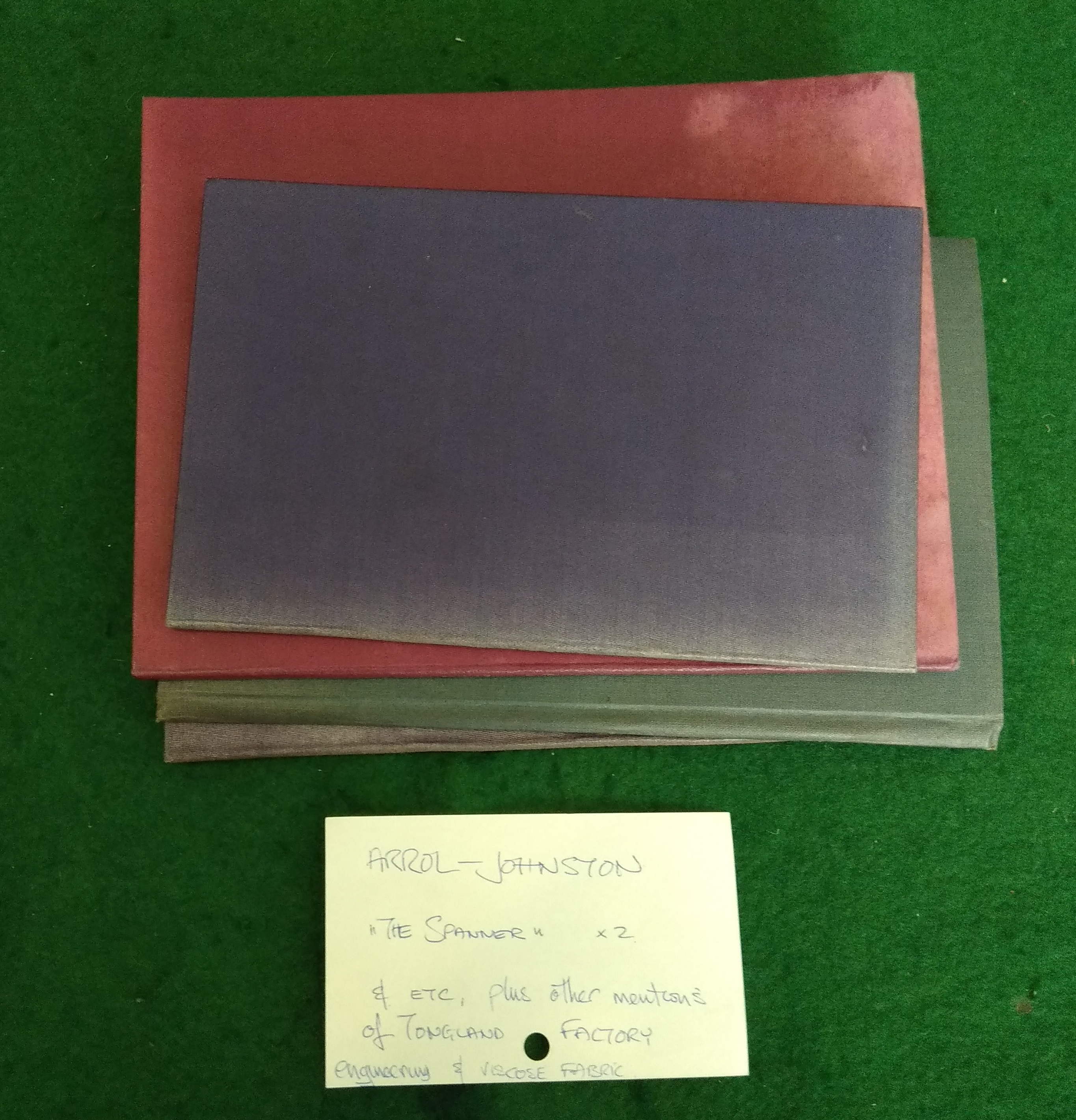 Bound copies of "The Limit" and "The Spanner", Galloway Engineering Company and Arrol-Johnston Co works magazines, 1917-1919.